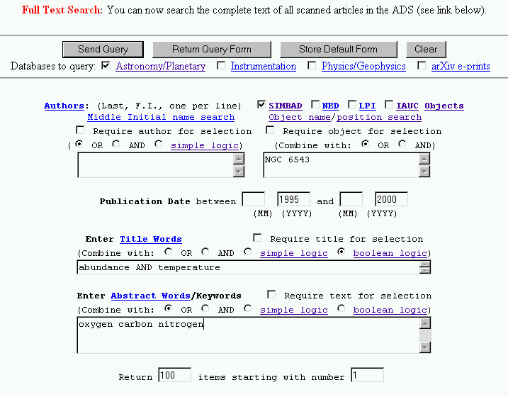 Screenshot of Astrophysics Data System.